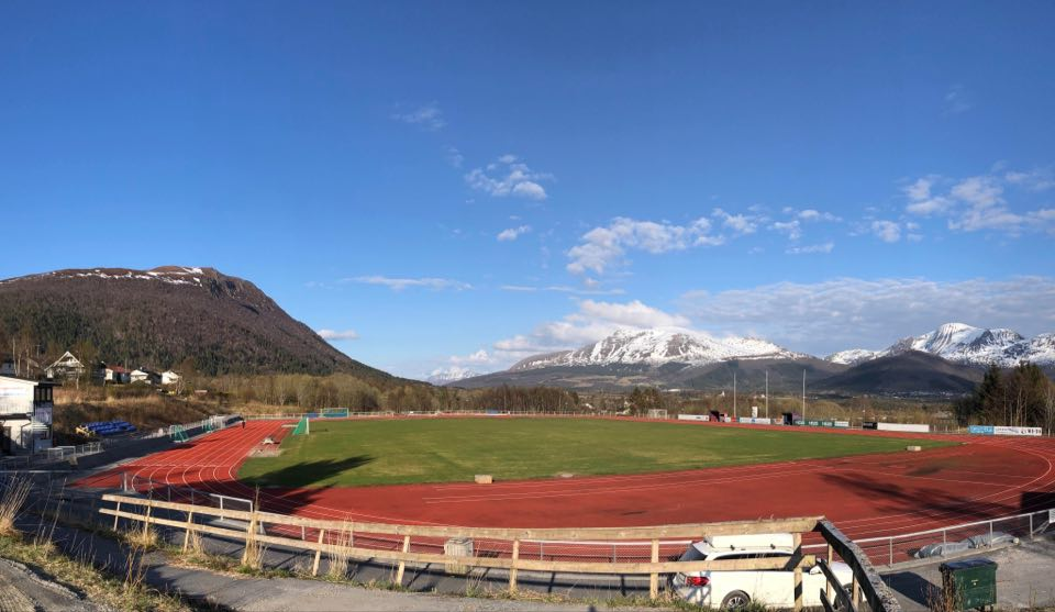 a picture of Elnesvågen Stadion in Elnesvågen, Norway